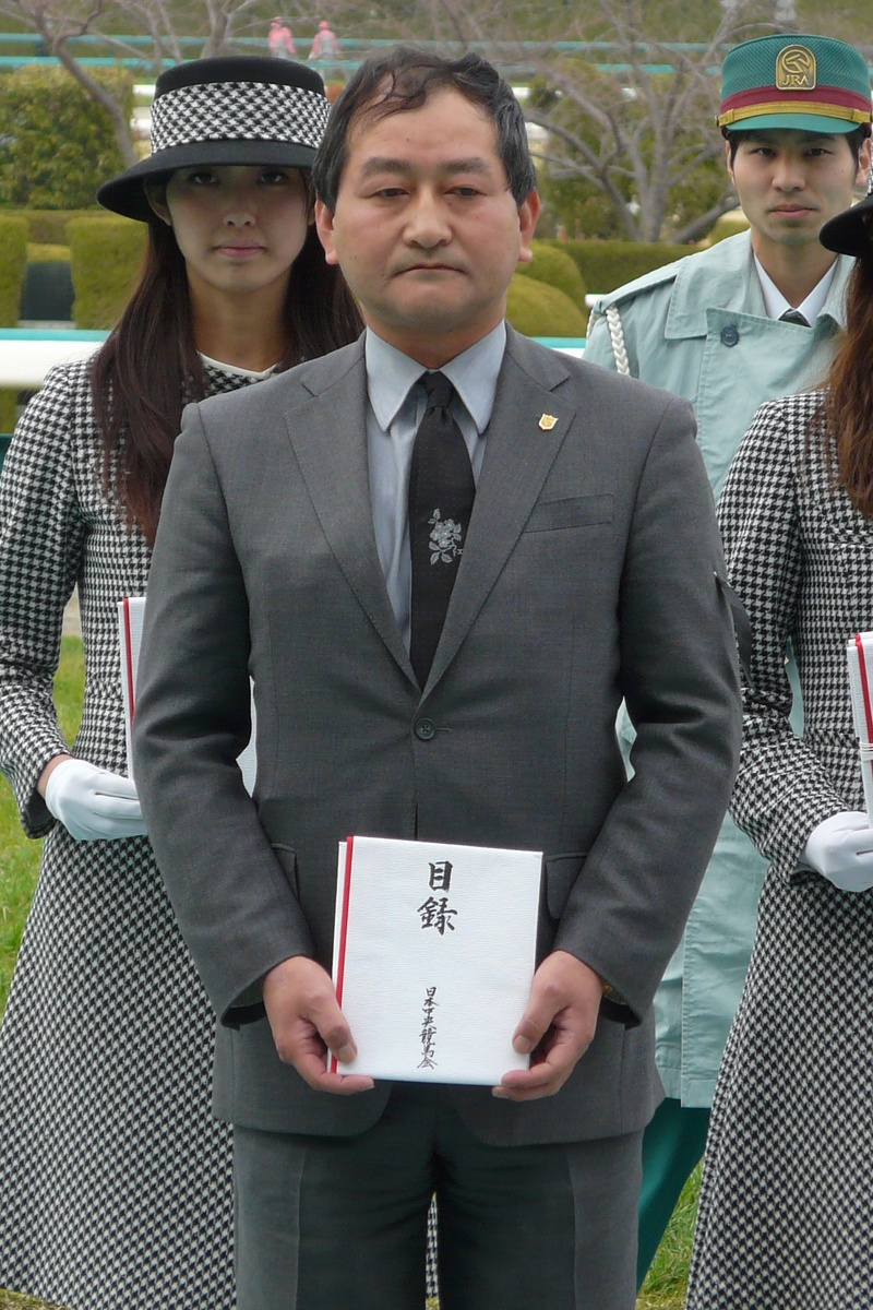 Yoshito-Yahagi20110319